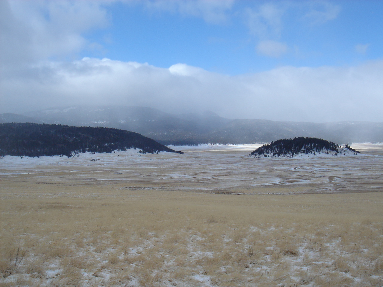 Valle Grande in winter, with two forested lava domes in the foreground: South Mountain on the left, Cerro la Jara (roughly 75 m) on the right. Valle Grande is located in Valles Caldera National Preserve, New Mexico, USA.